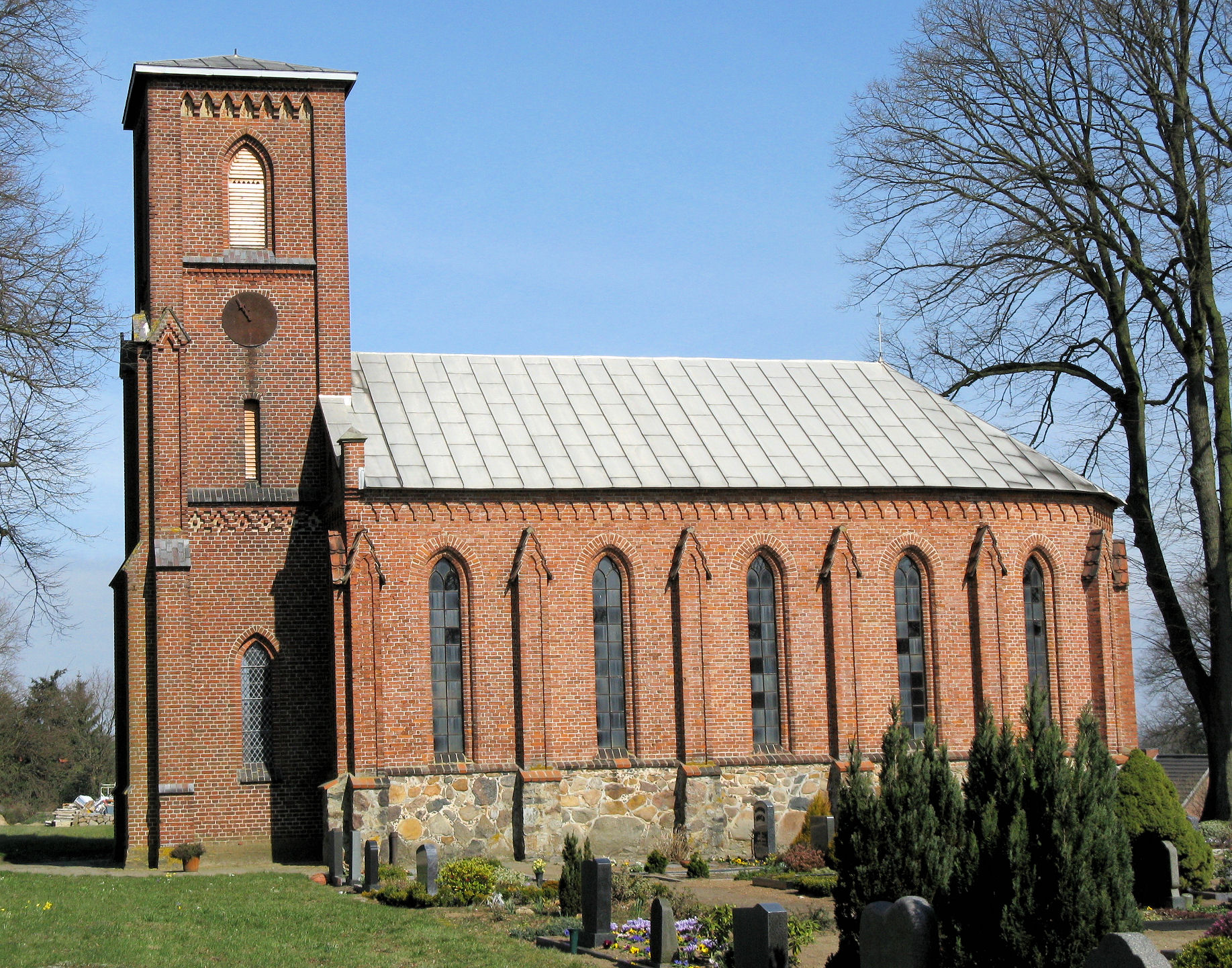 Church in Mirow, district Parchim, Mecklenburg-Vorpommern, Germany